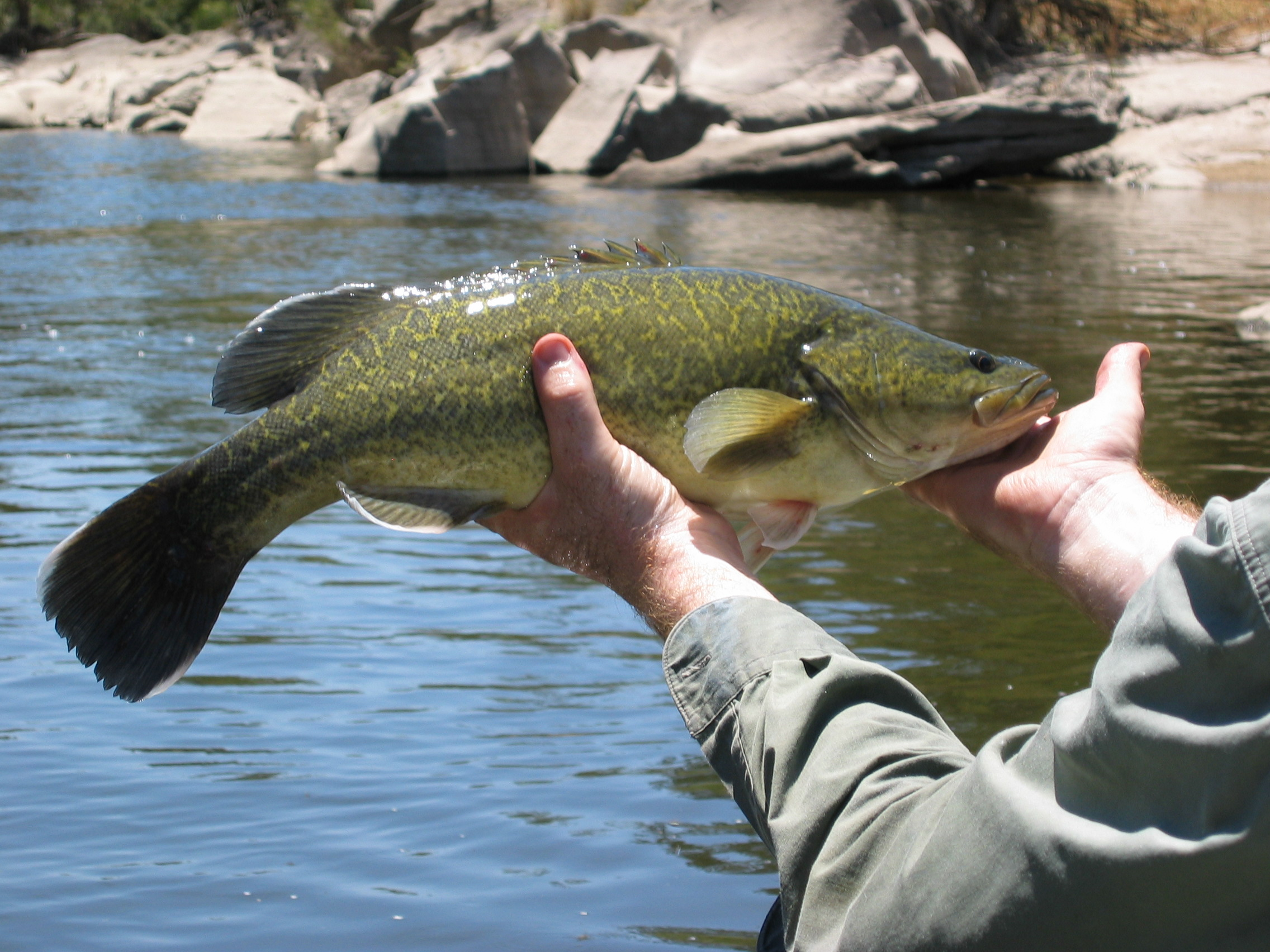 This small Murray cod was caught in a run in an upland river, on a lure equipped with barbless hooks. It was carefully released after the photo. The red spots on the lower gill cover and dorsal spines are infestations of Lernaea (aka "anchor worm"), an introduced skin parasite that now infest Murray cod and cause them serious health problems. Codman 09:50, 1 August 2007 (UTC)